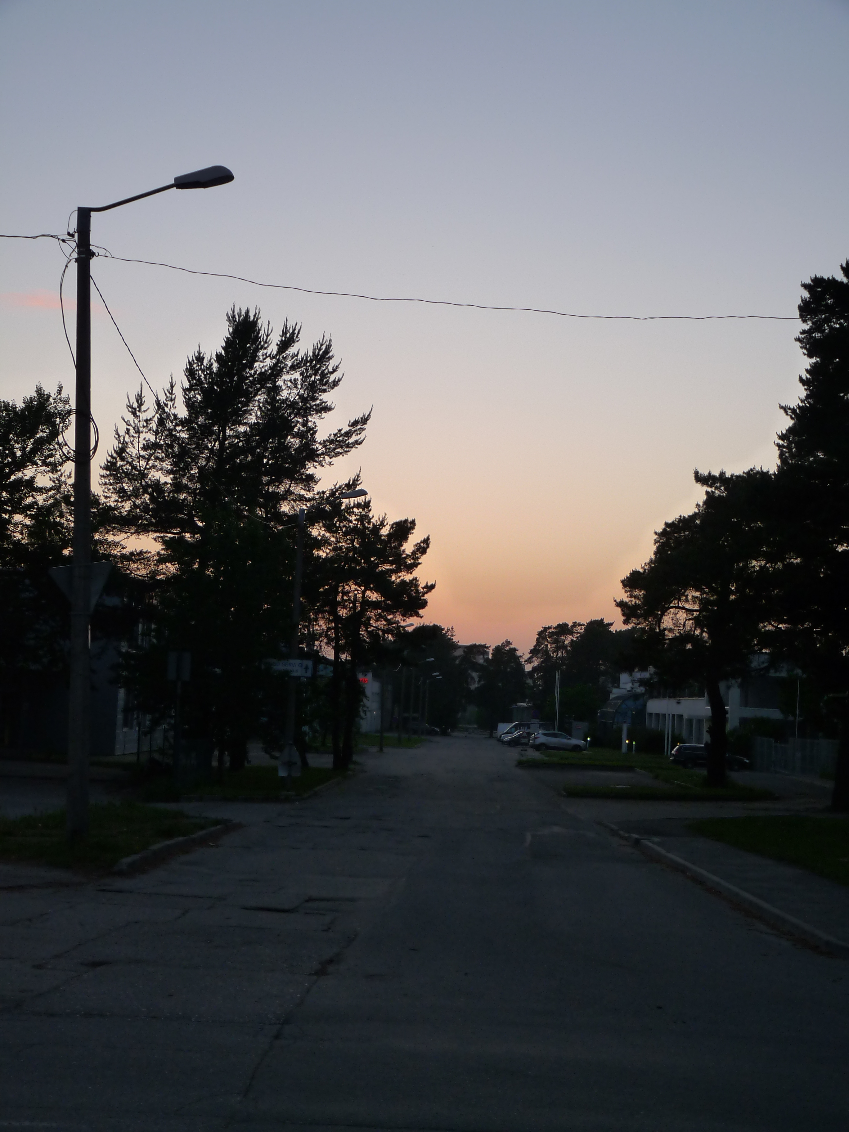 Kassi street in Tallinn, Estonia